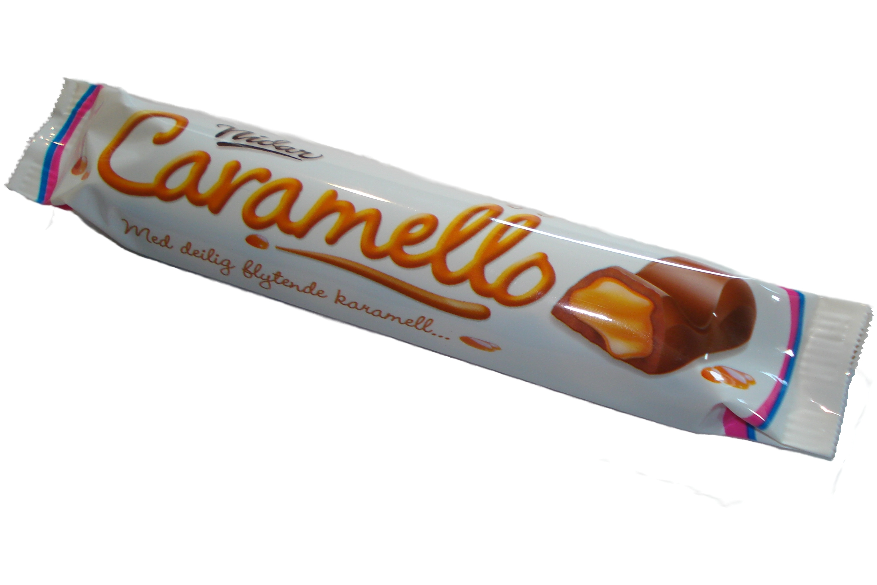 Image of a "Caramello"-chocolate.